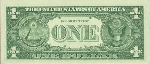 One dollar bill, 1963A series, reverse.